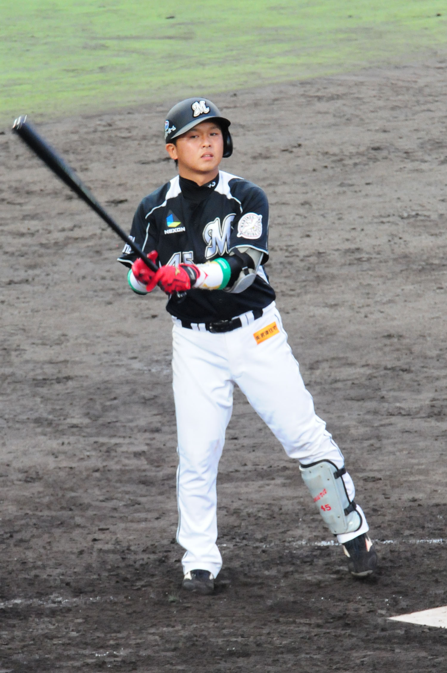 Tatsuhiro Tamura, catcher of the Chiba Lotte Marines, at Akita Prefectural Baseball Stadium.